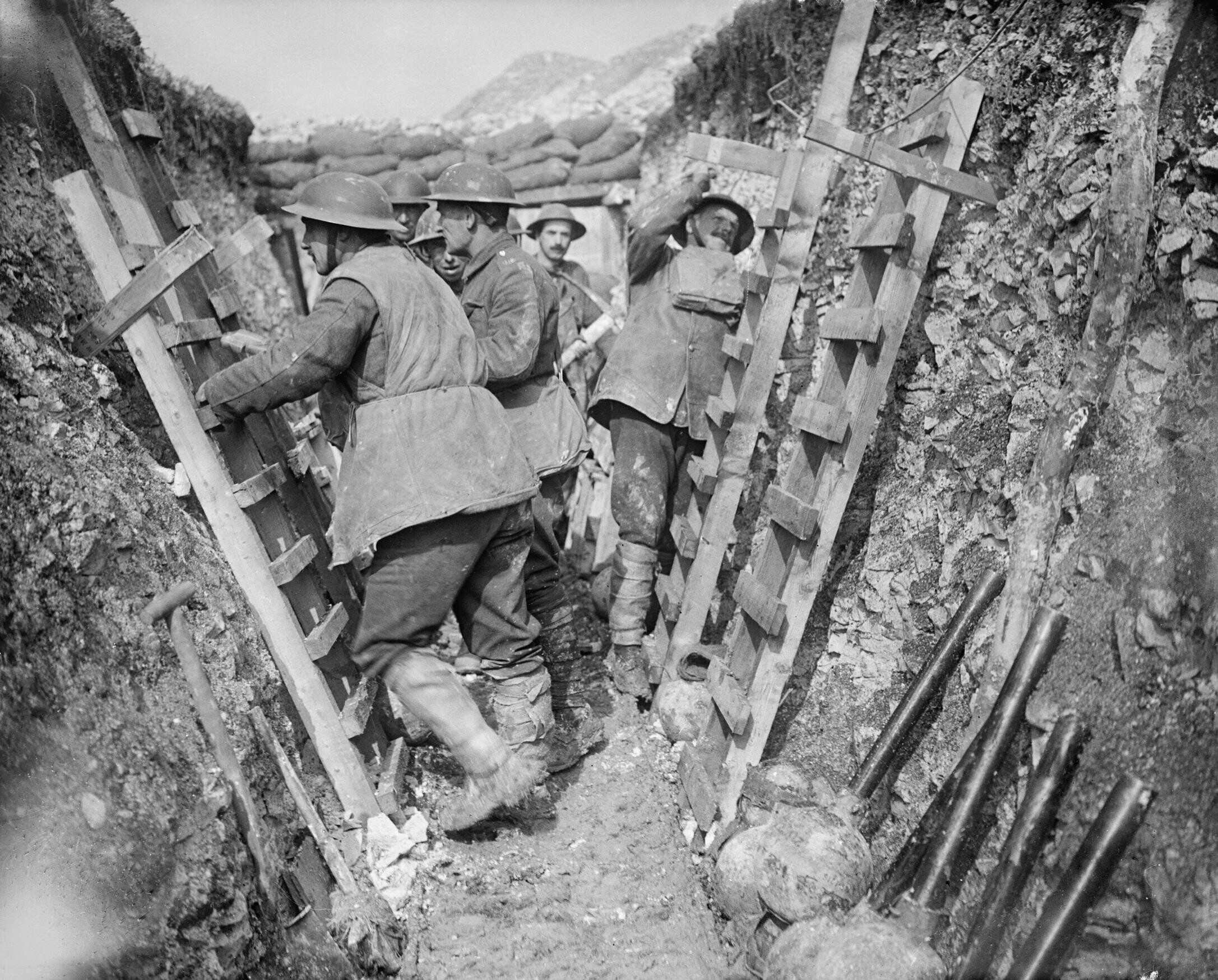 The Battle of Arras, April-may 1917 Sappers of the Royal Engineers fix scaling ladders in front line trenches during 8 April 1917, the day prior to the opening of the Arras offensive.